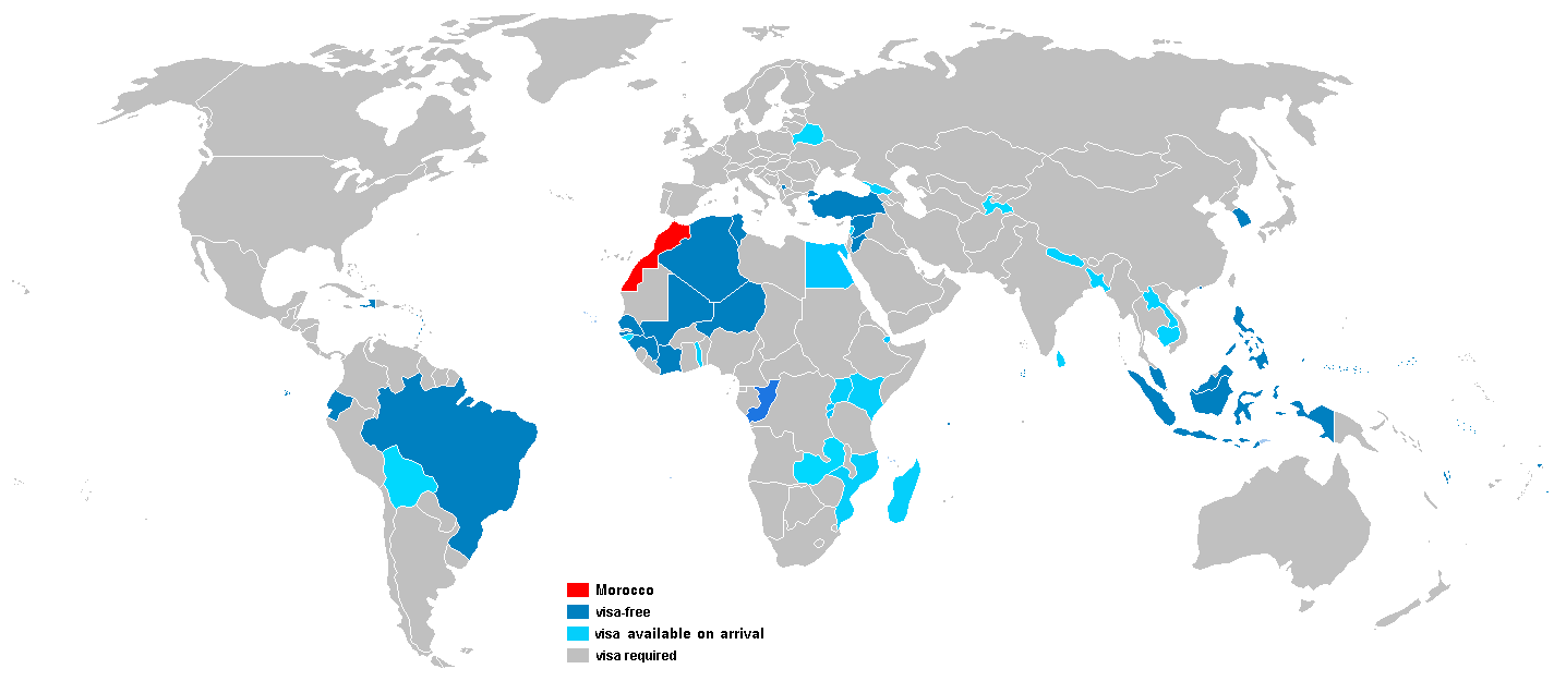 Countries and territories with visa-free or visa-on-arrival entries for Moroccan citizens with normal passports issued by Morocco